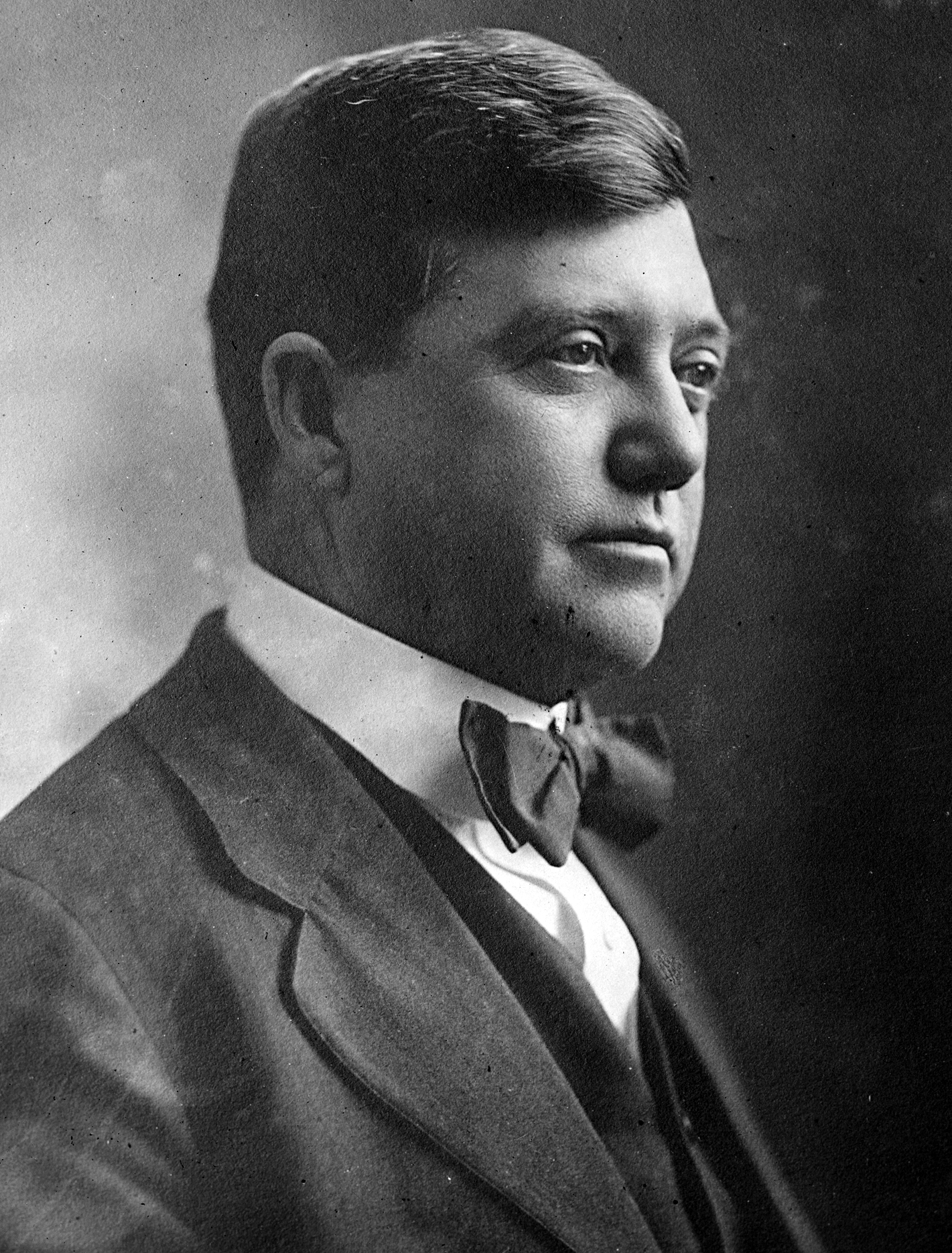 Walter Kehoe, US Representative from Florida